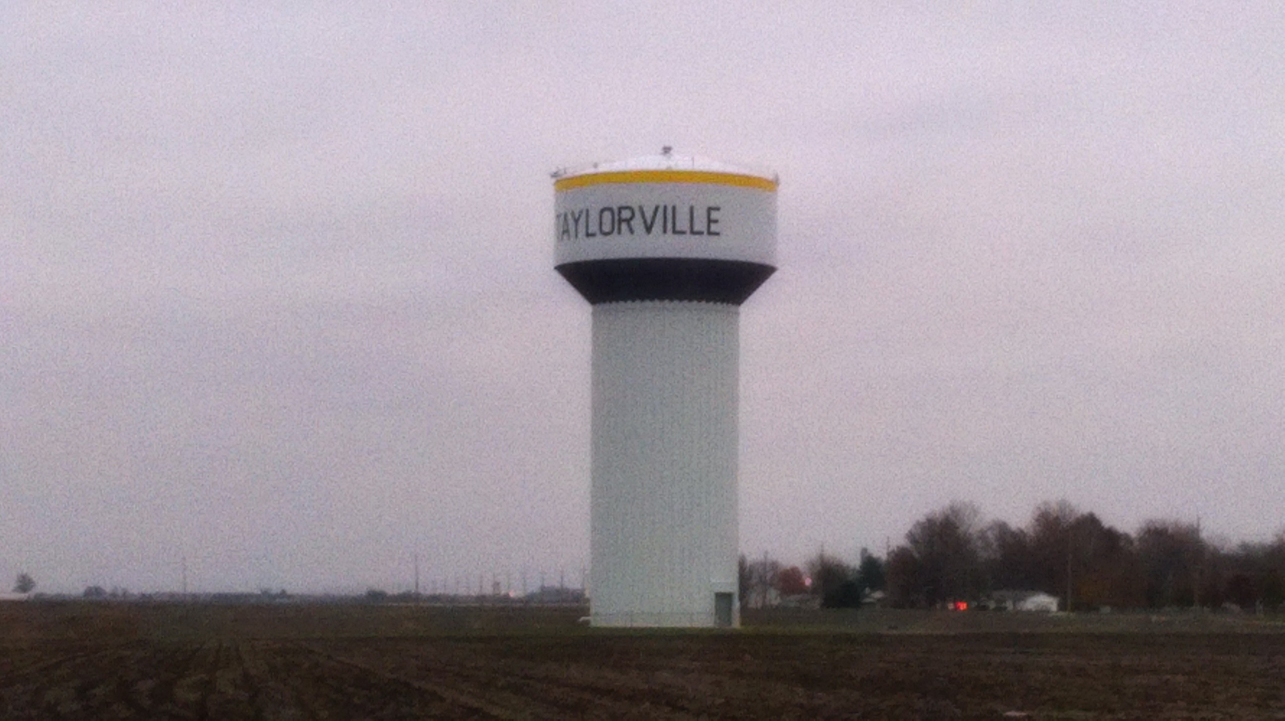 Taylorville Water tower off of Route 29